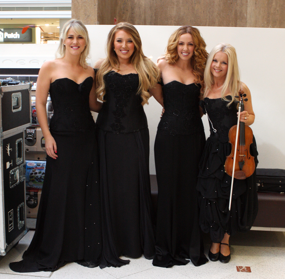 Celtic Woman performs at Macquarie Shopping Centre, Sydney.